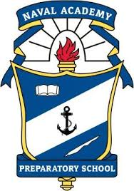 This is the logo of the Naval Academy Prep School